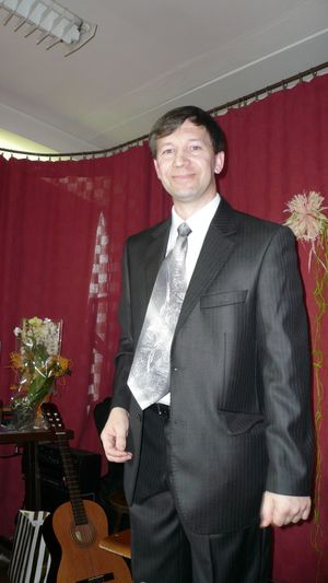 Picture of Algis Želvys